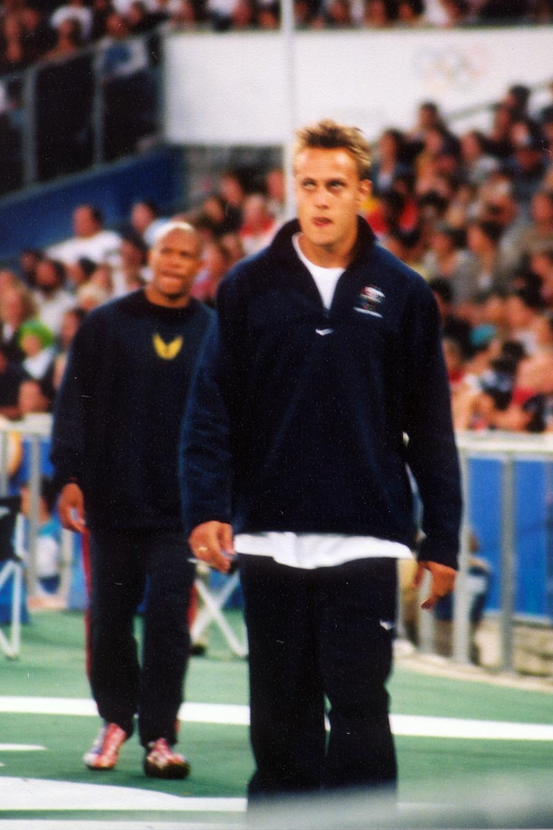 Matt Shirvington at the 2004 Summer Olympics